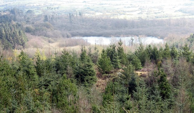 View south to Llyn Llwydiarth, the source of Afon Braint